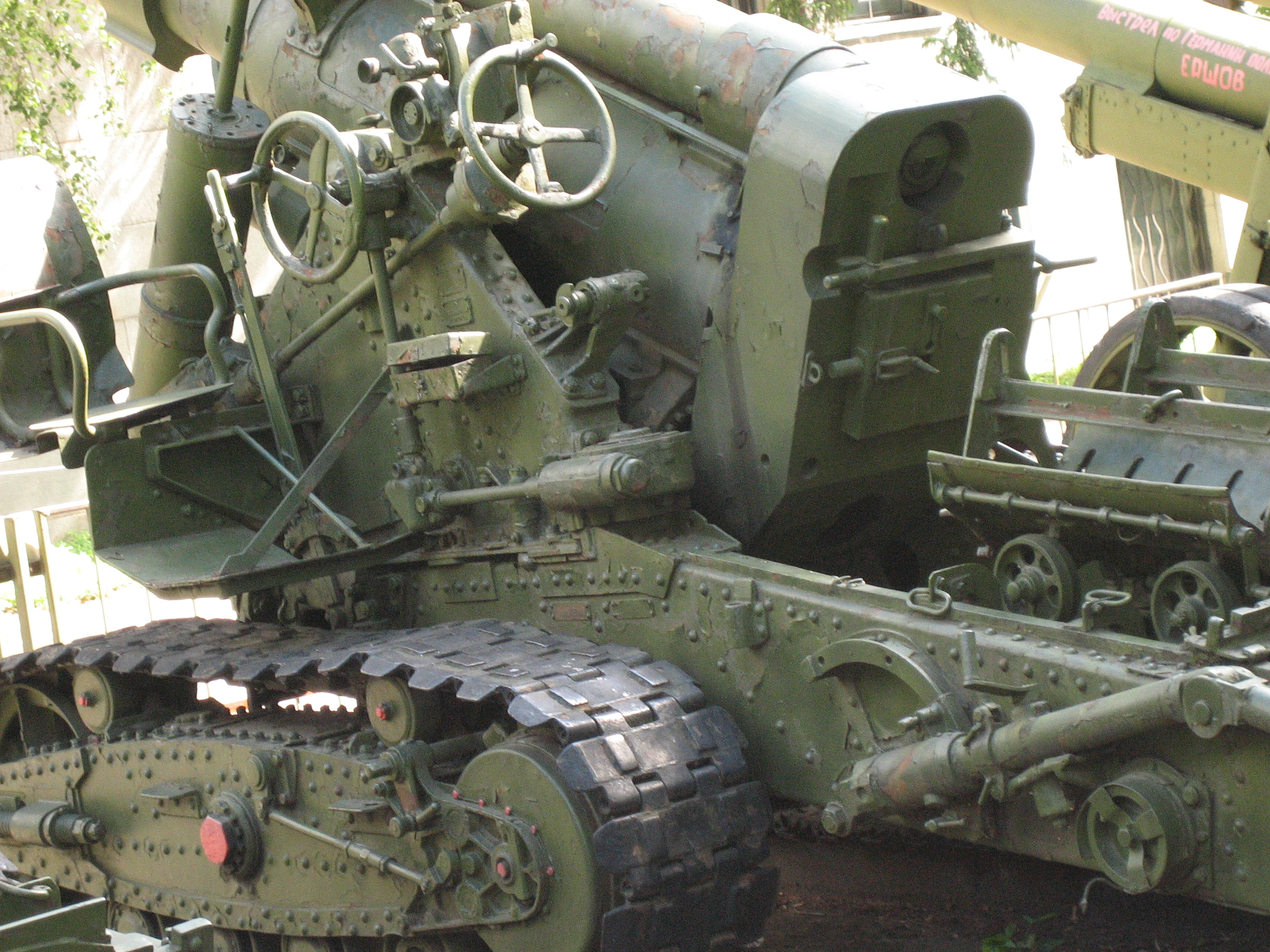 Soviet 152mm Br-2 Mark 1935 gun, displayed in Moscow Military Museum. Photo taken on 19 July, 2007. Source: Photo by me, User:Saiga20K.